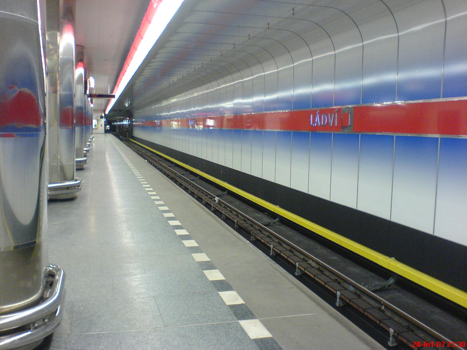 plaftform of Ladvi metro station in Prague